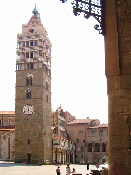 Pistoia, Piazza Duomo Picture taken by user:Idéfix, july 2003